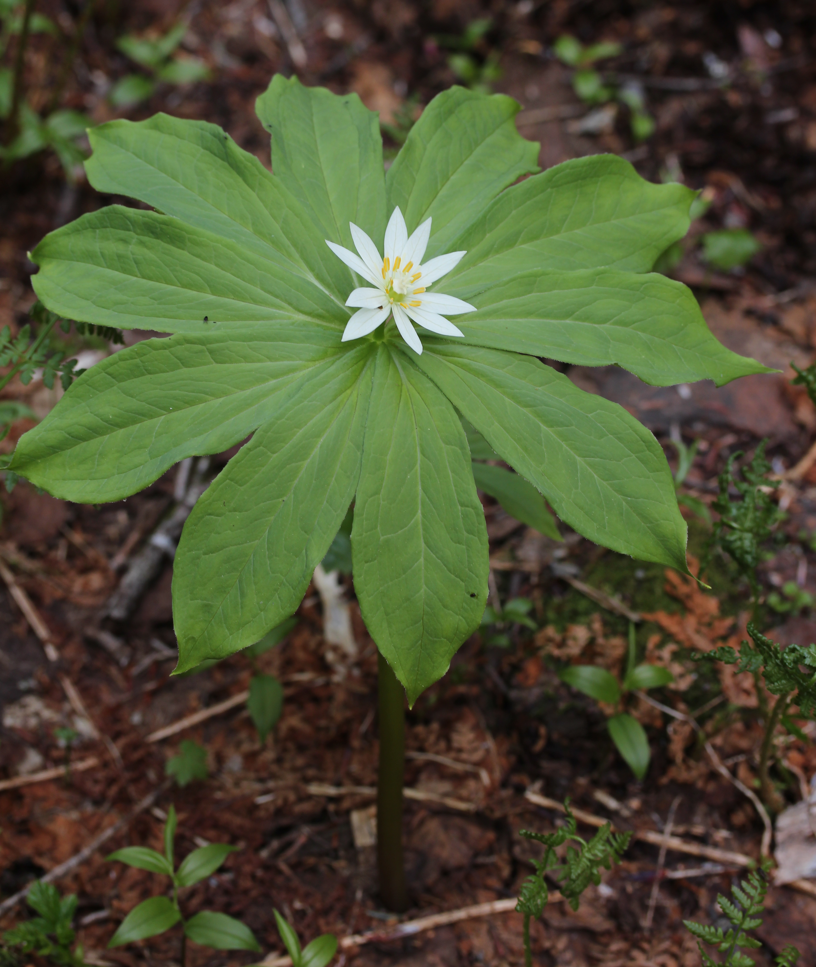 Kinugasa japonica (Paris japonica), in Mount Chō, Hida Mountains, Azumino, Nagano prefecture, Japan.